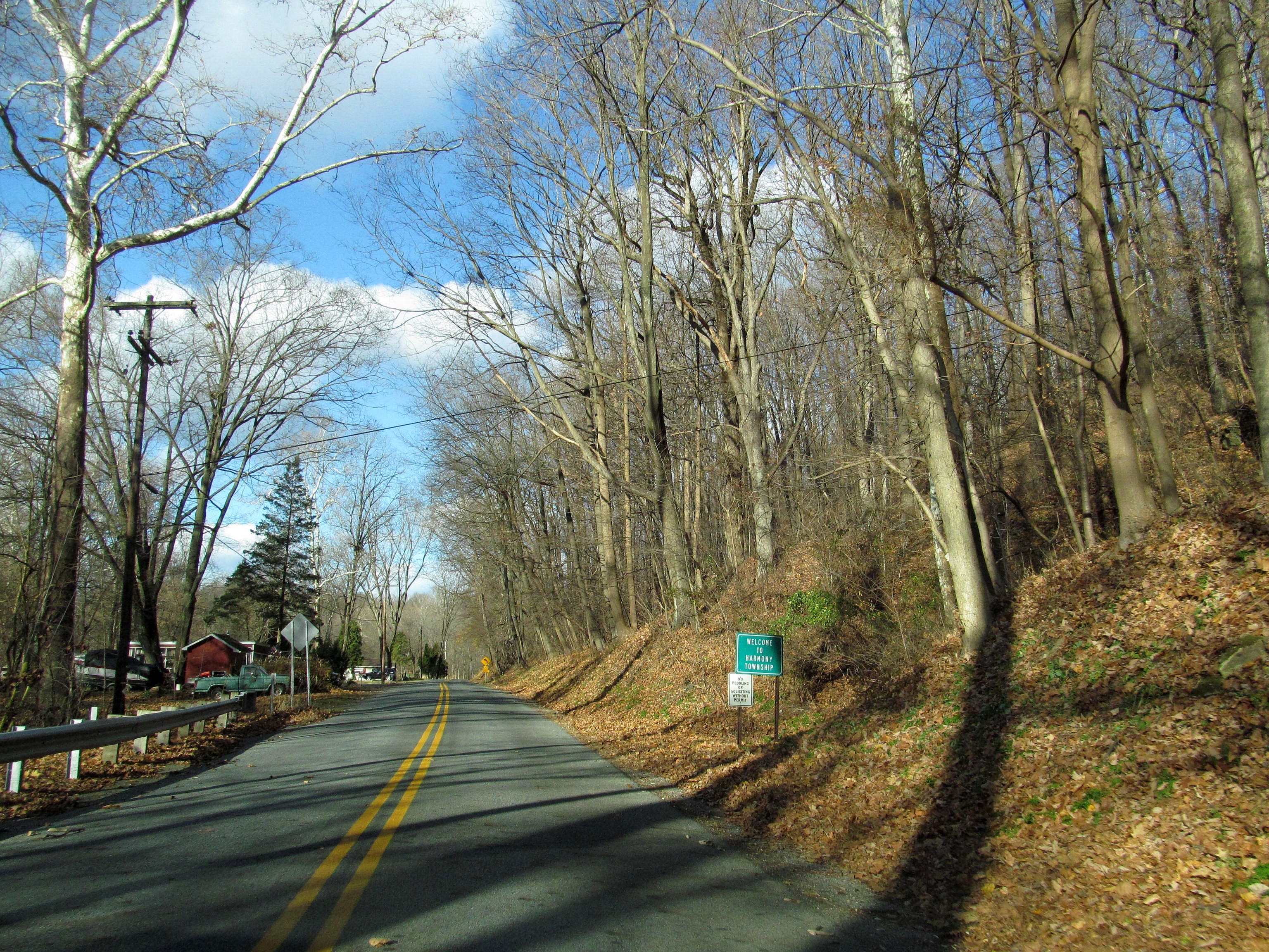 Entering Harmony Township, Warren County, New Jersey along County Route 621.jpg